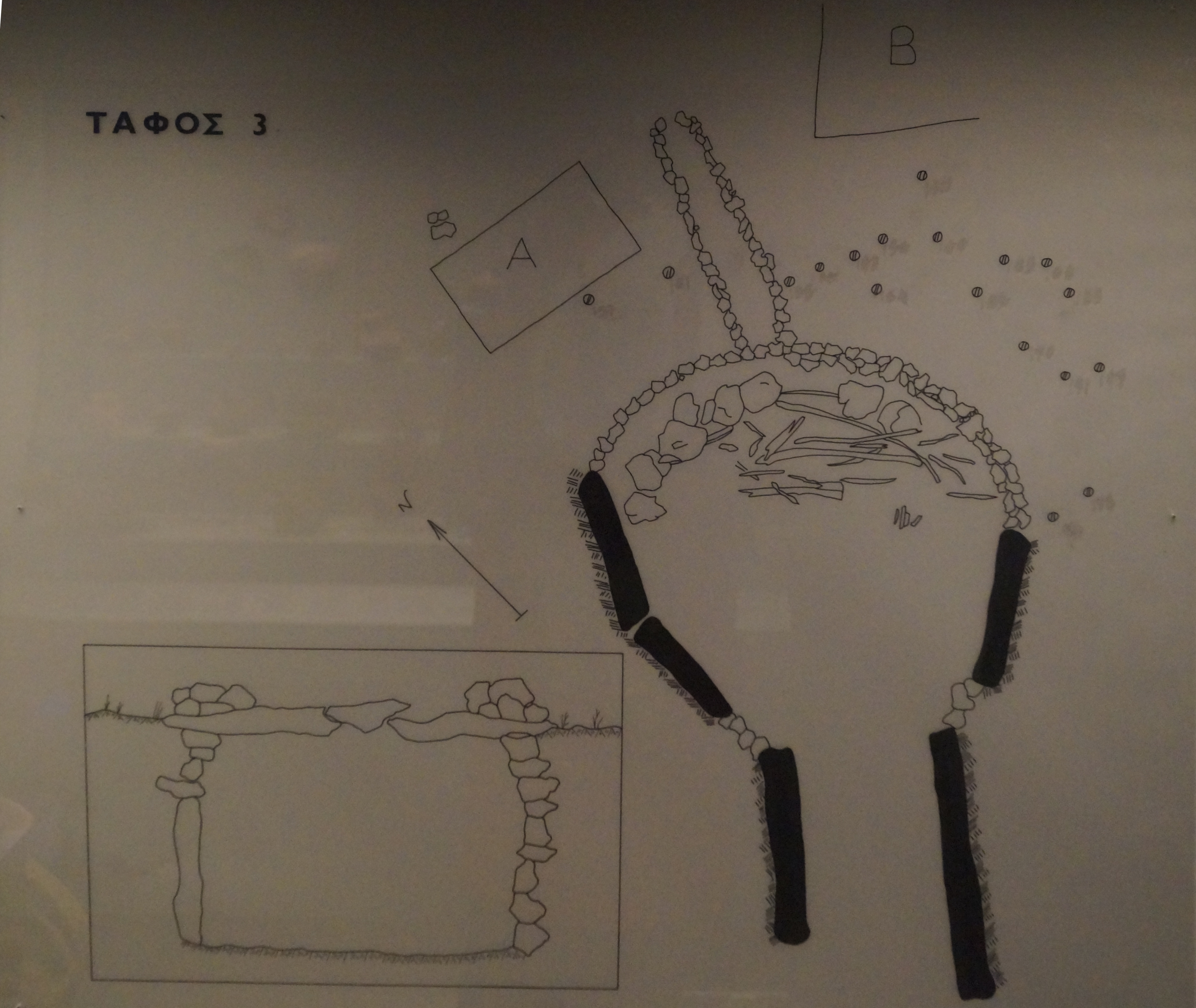 National Archaeological Museum of Athens: Plan of tomb 3 of the Early Bronze Age cemetery on the promontory of Agios Kosmas in Attica.